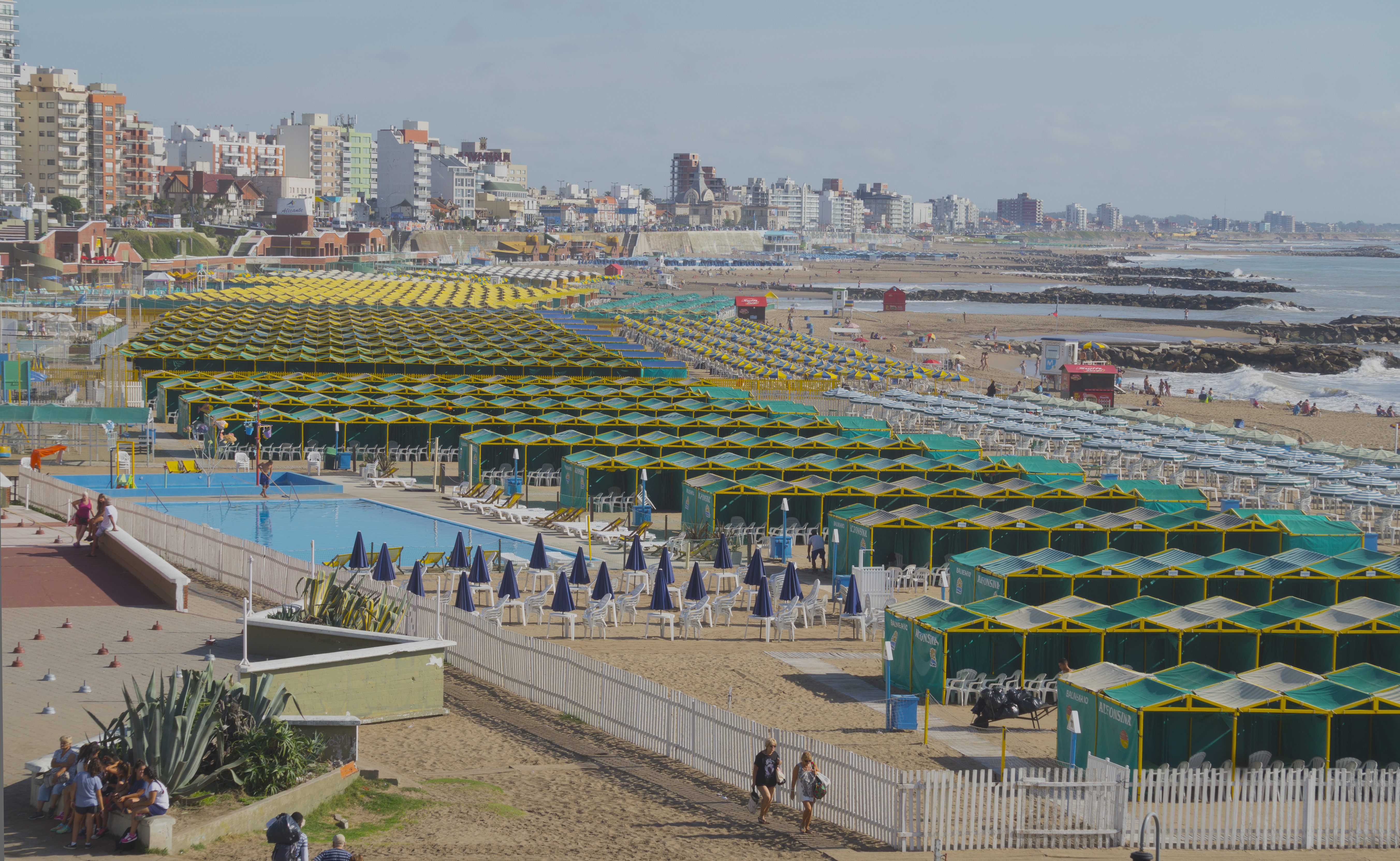 Balneario Alfonsina, La Perla, Mar del Plata, Argentina